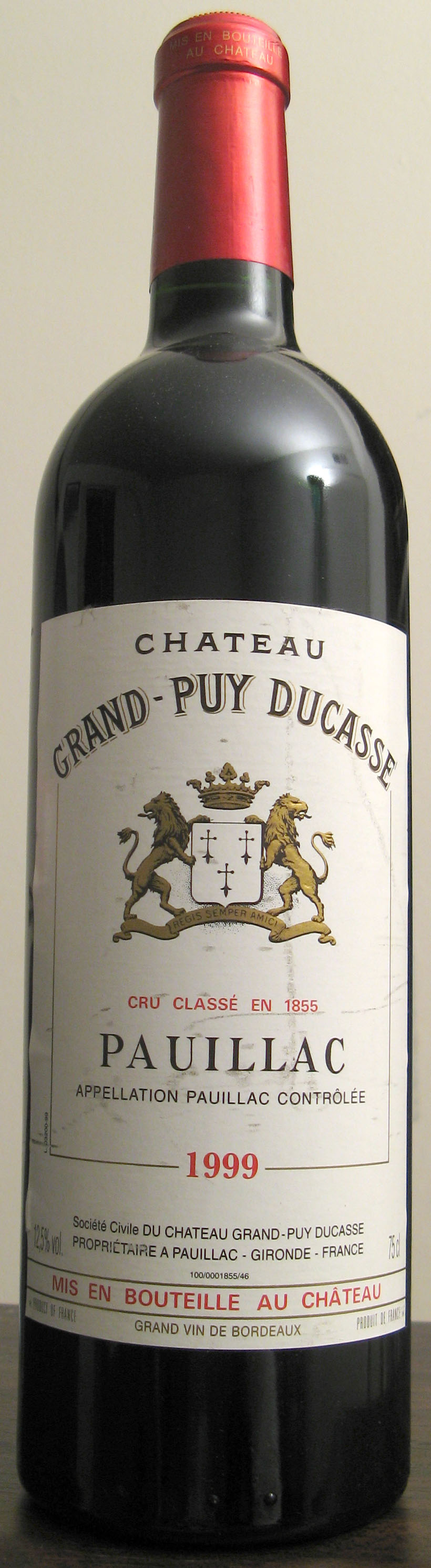 A bottle of 1999 Château Grand-Puy-Ducasse.